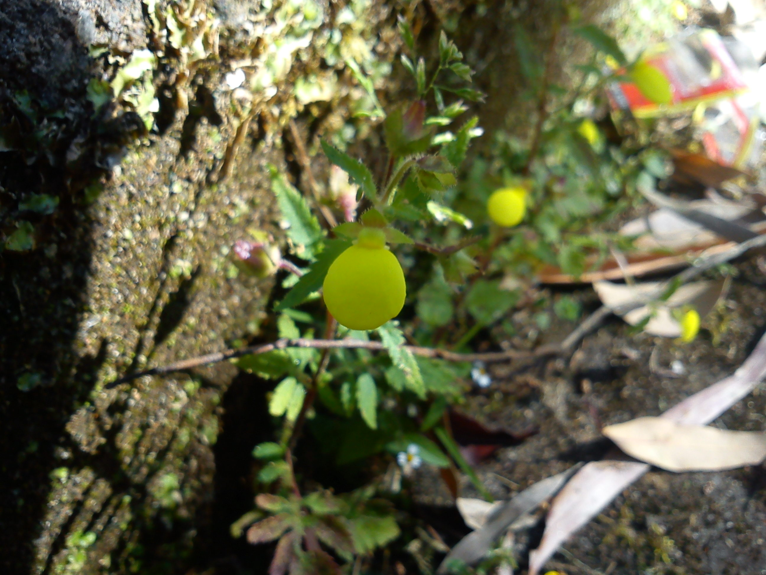 Calceolaria mexicana in Ooty Botanical Garden, Tamil Nadu, India